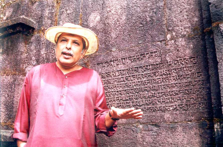 This is the photo of Ninad Bedekar taken on Raigad fort.